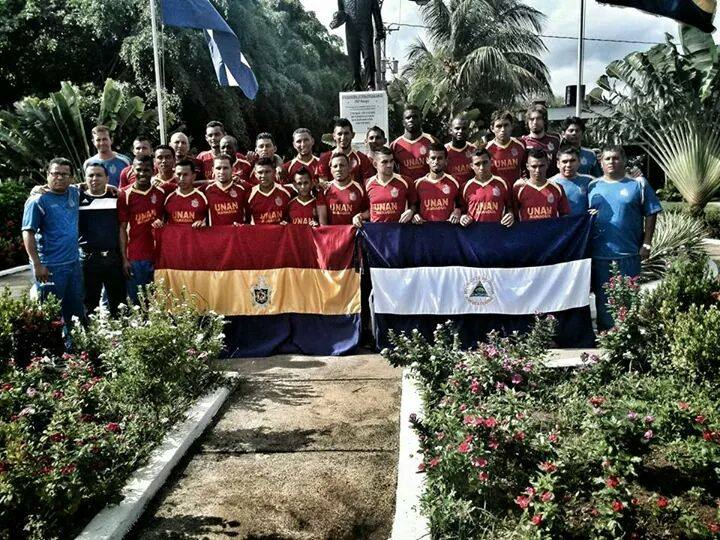 Unan Managua FC Season 2014/2015